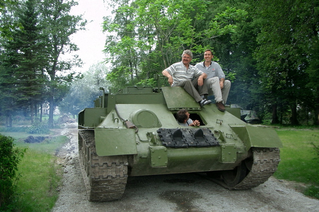 T-34-T ARV just outside Tallinn, Estonia